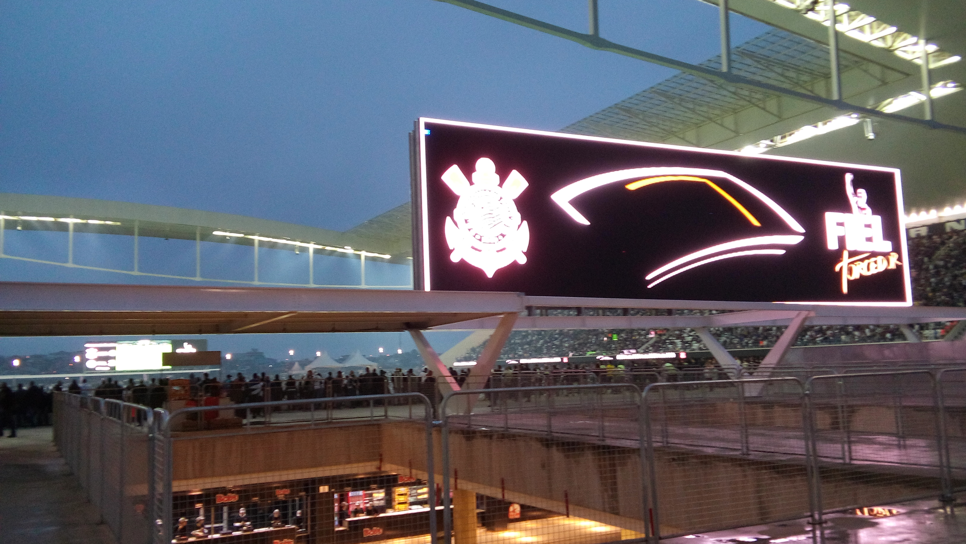 Screen South - Arena Corinthians